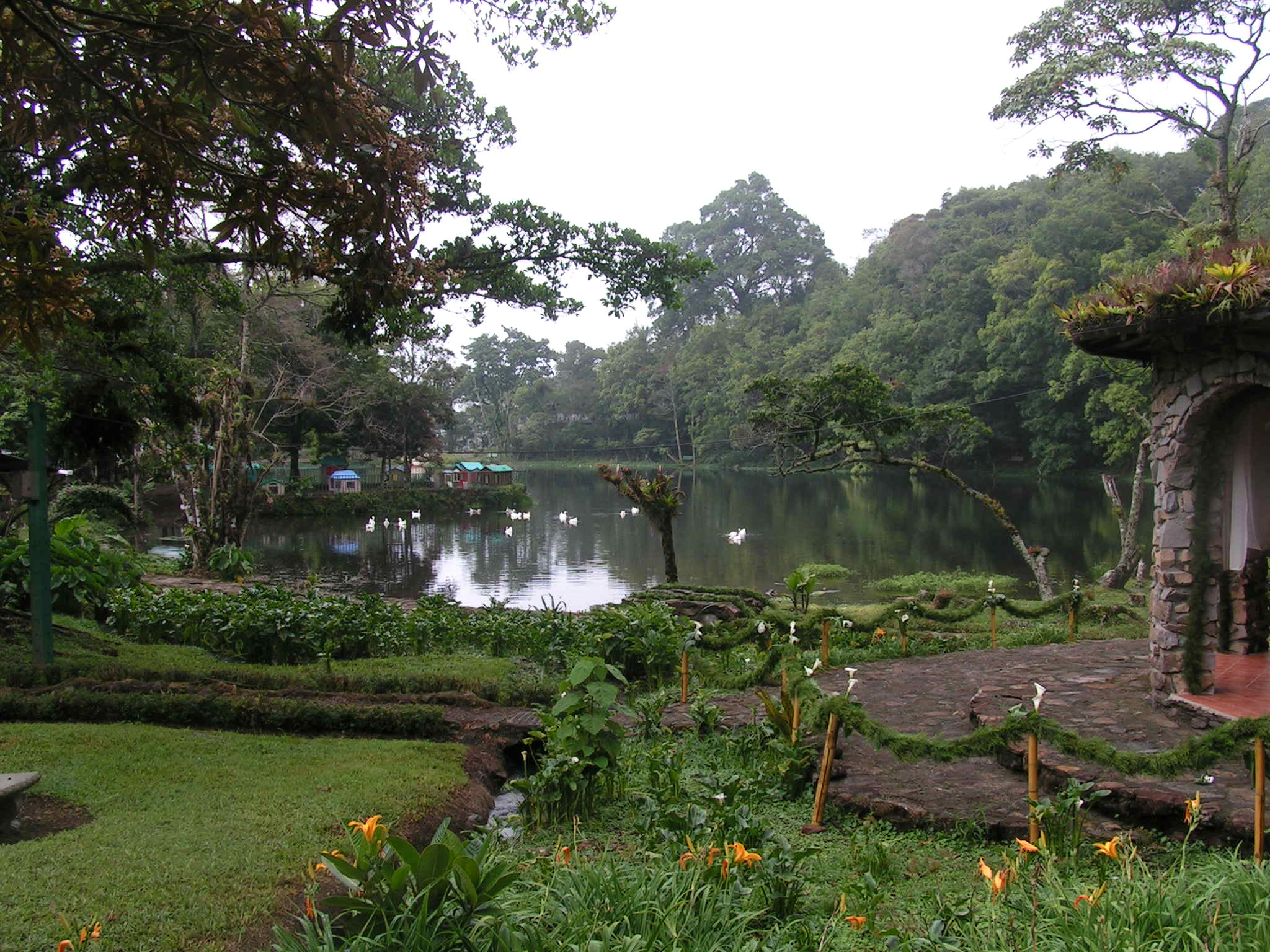 Gazebo near lake and restaurant